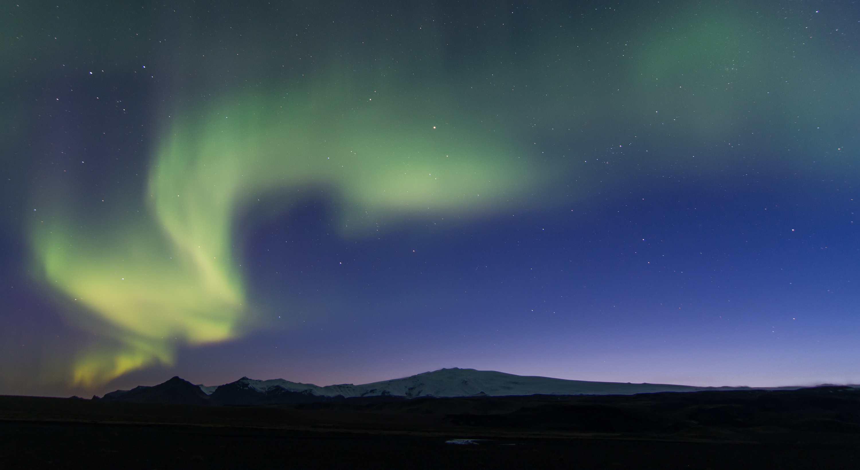 The Eyjafjallajökull and the aurora, seen from the Skogasandur outwash plain, near the village of Skogar.